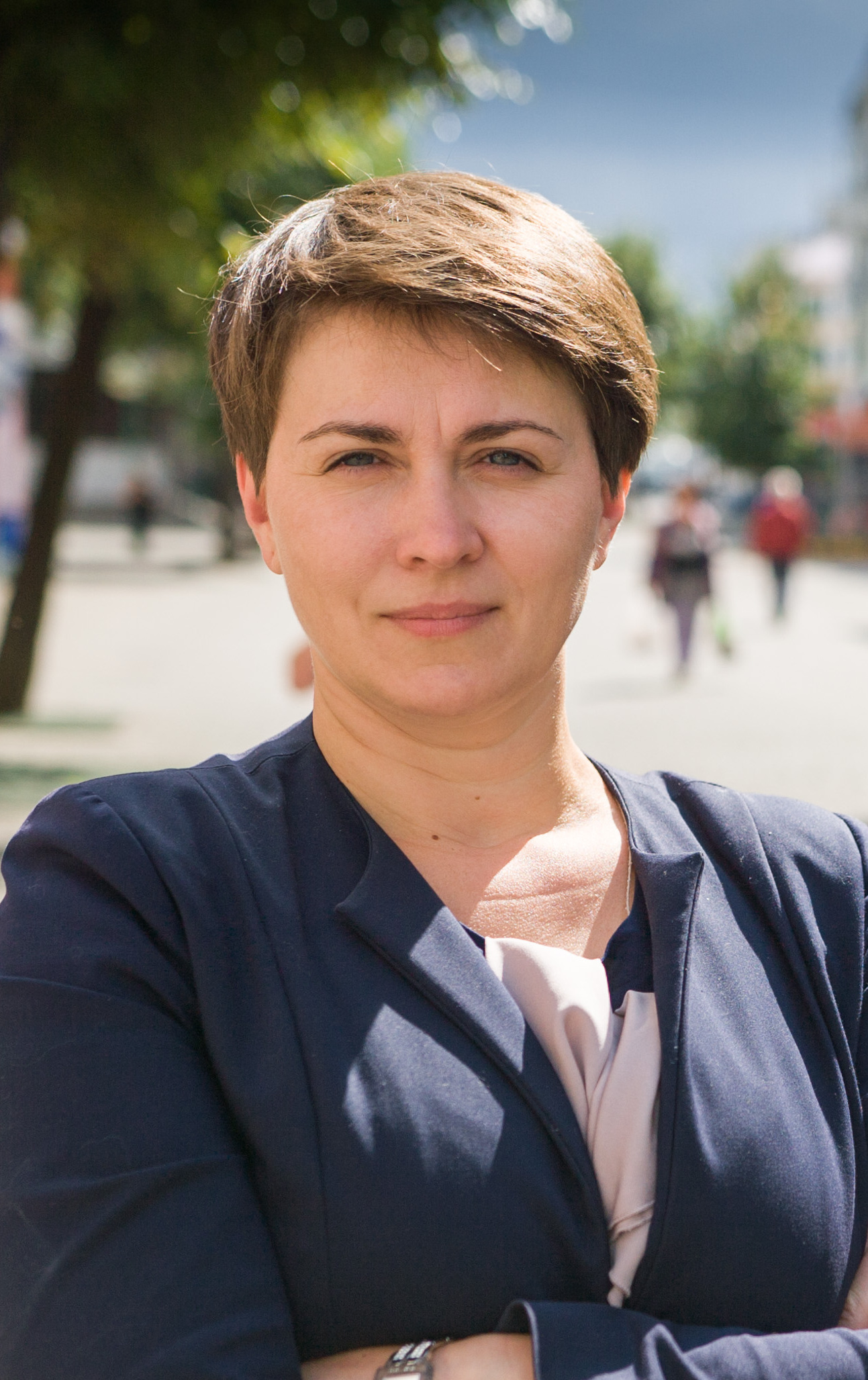 portrait of Tacciana Karatkievič, belarusian presidental candidate in 2015 elections, Mahilioŭ, Belarus